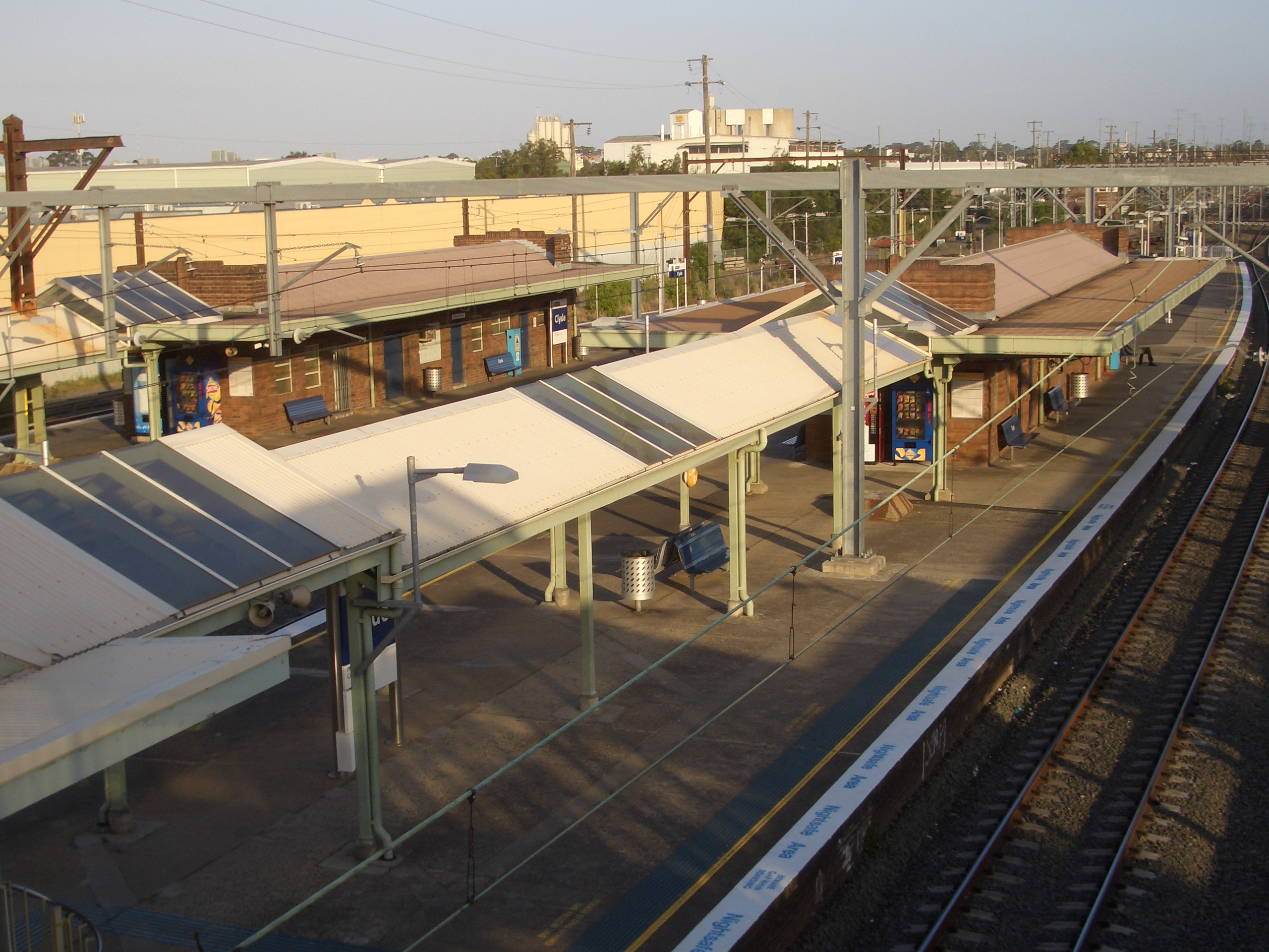 Clyde railway station